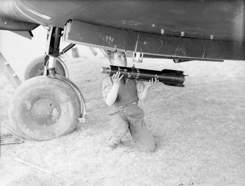 Royal Air Force- France, 1939-1940. An armourer loads a 4.5 inch reconnaissance flare into the wing cell of a Fairey Battle of No. 218 Squadron RAF at Auberives-sur-Suippes, prior to a sortie.